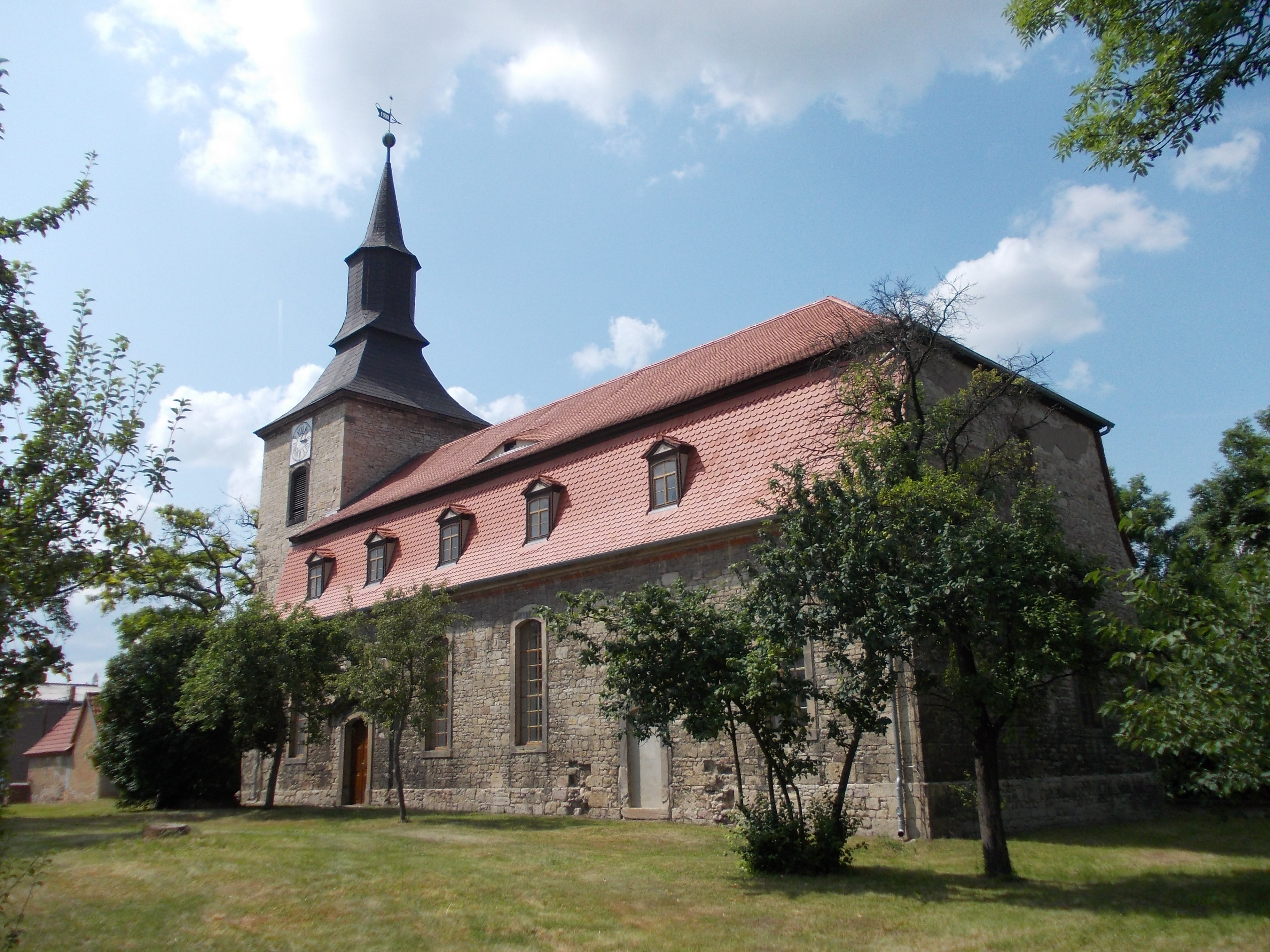 St. Kilian's Church in Gröst (Mücheln/Geiseltal, district: Saalekreis, Saxony-Anhalt)